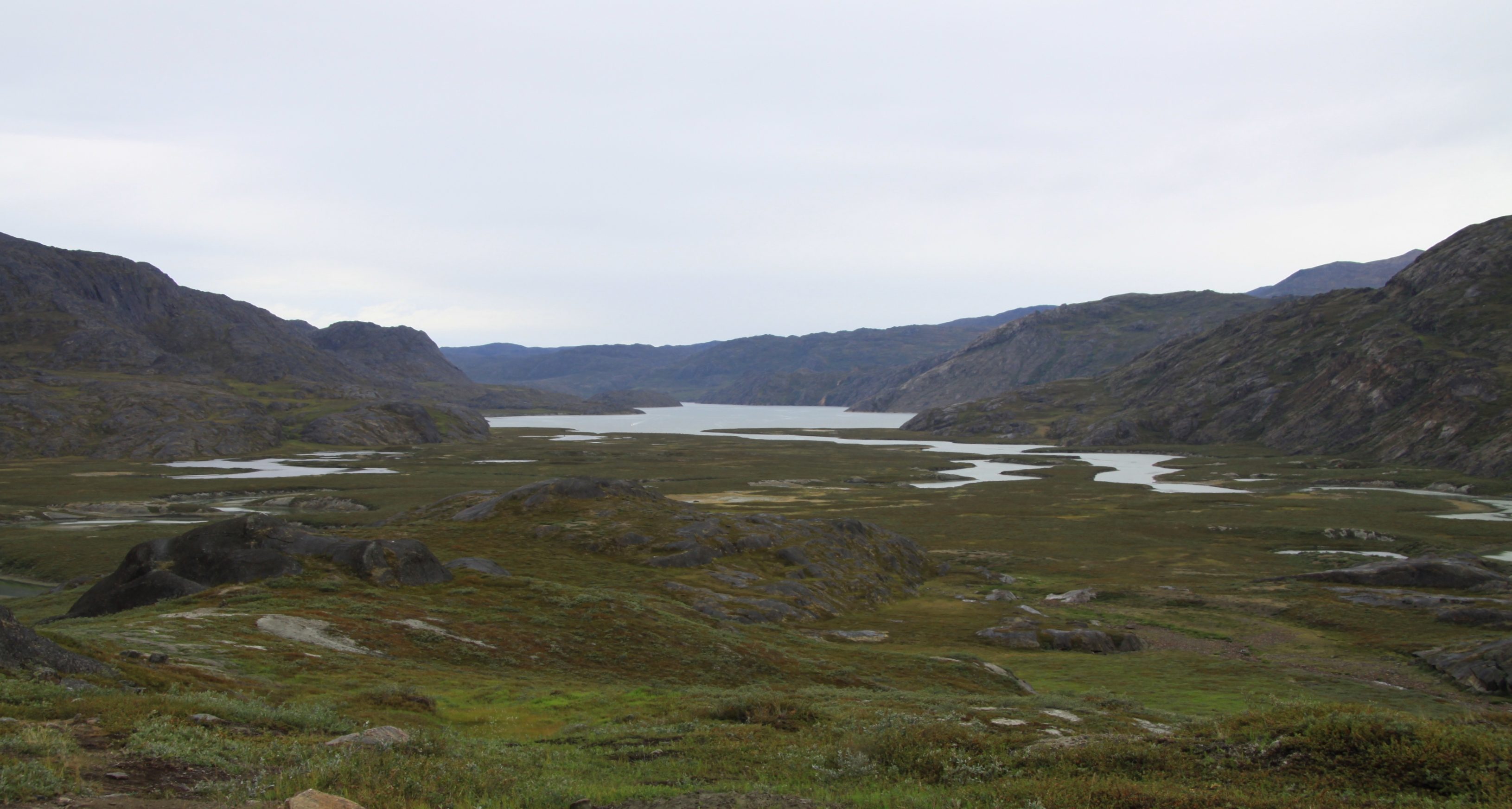 Maligiaq fjord with Itinneq River photographed during Arctic Circle Trail, Greenland